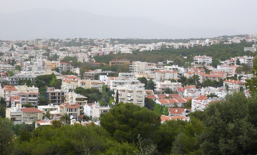 Panorama of Northern Suburbs of Athens.